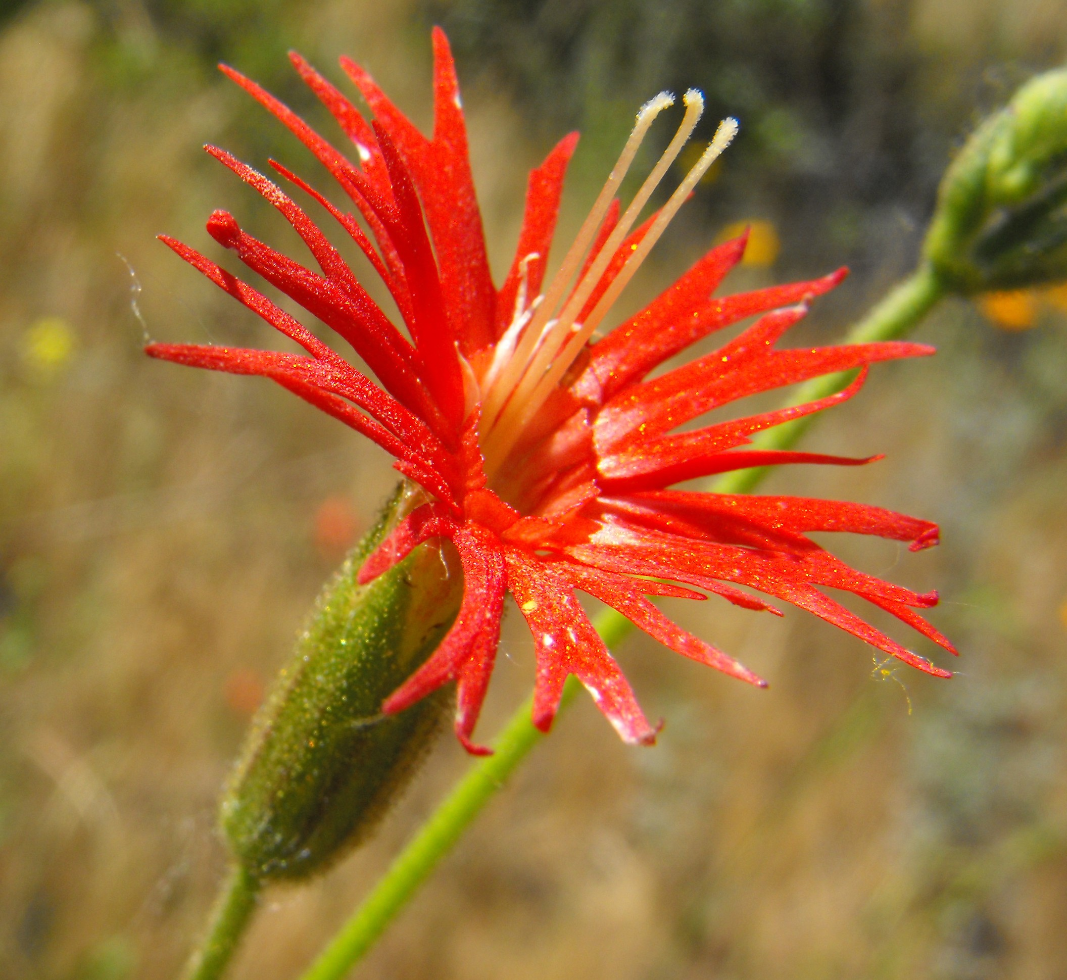 Silene laciniata — Indian-pink. At Lake Poway, in San Diego County, NW Peninsular Ranges, Southern California.